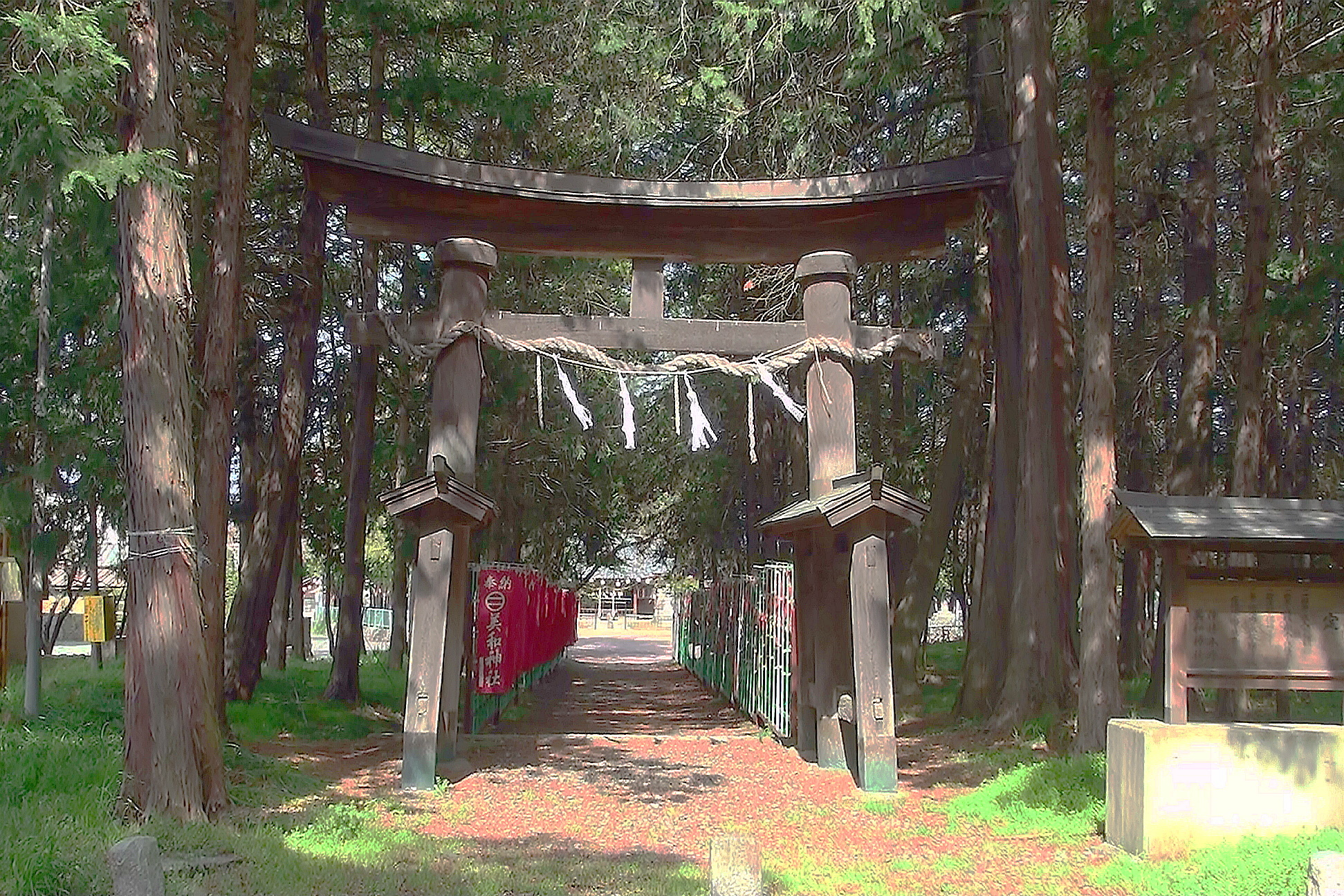 Miwa shrine Fuefuki-city